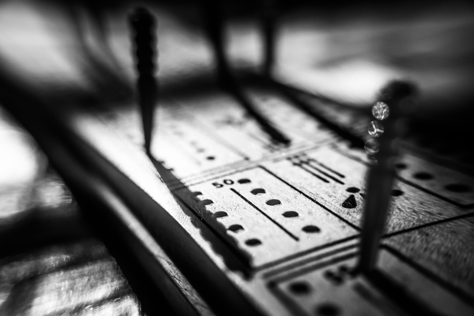 Cribbage board with pegs.jpg